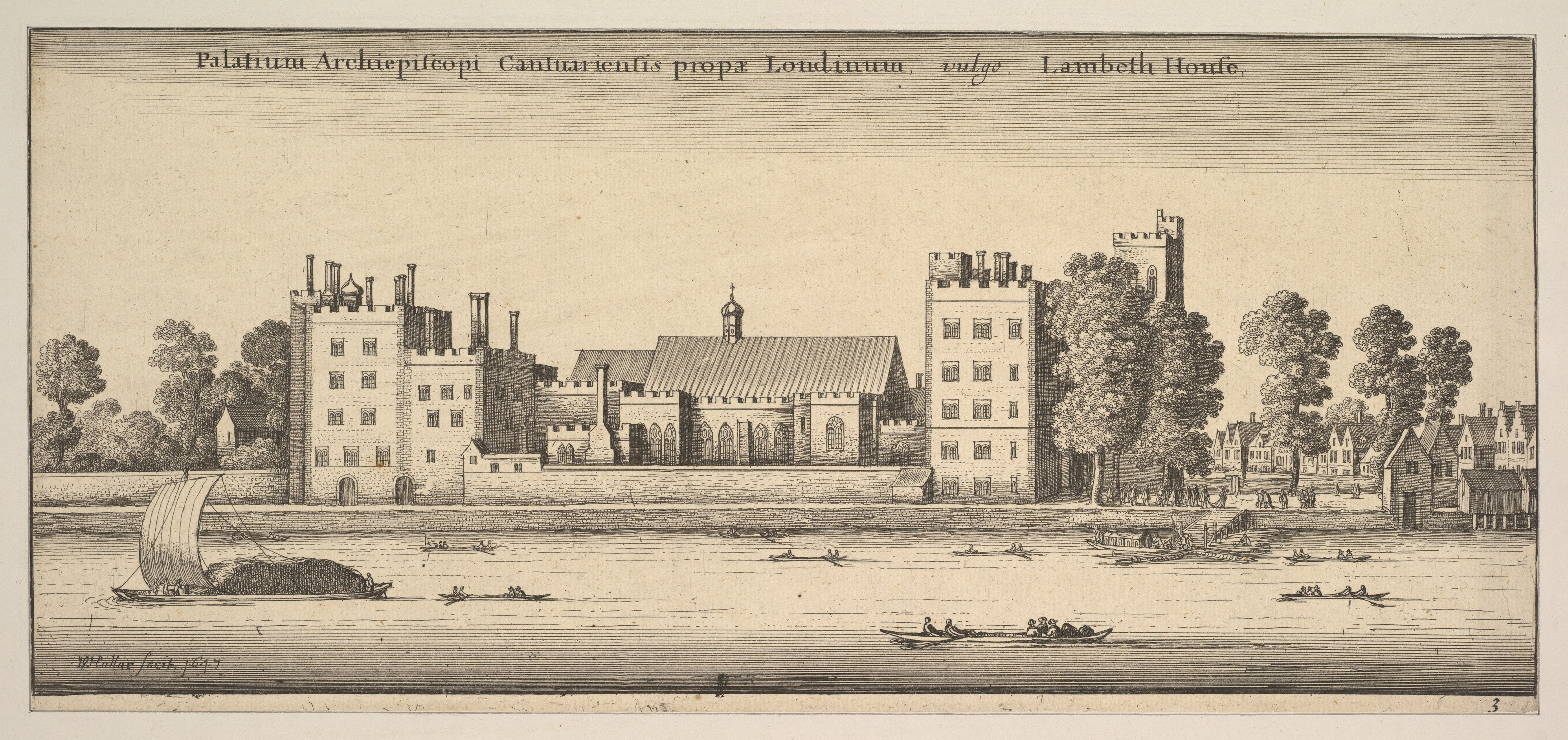 Print; Prints